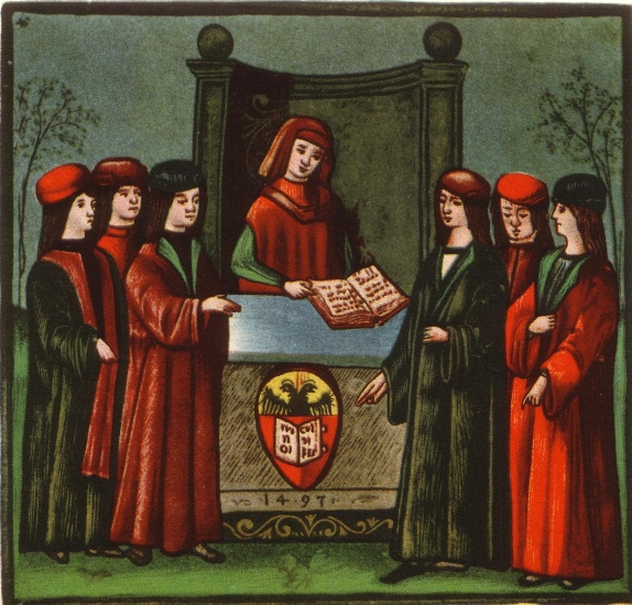 Students enter the „Natio Germanica Bononiae“, the german nation at the university of Bologna, image from the 15th century